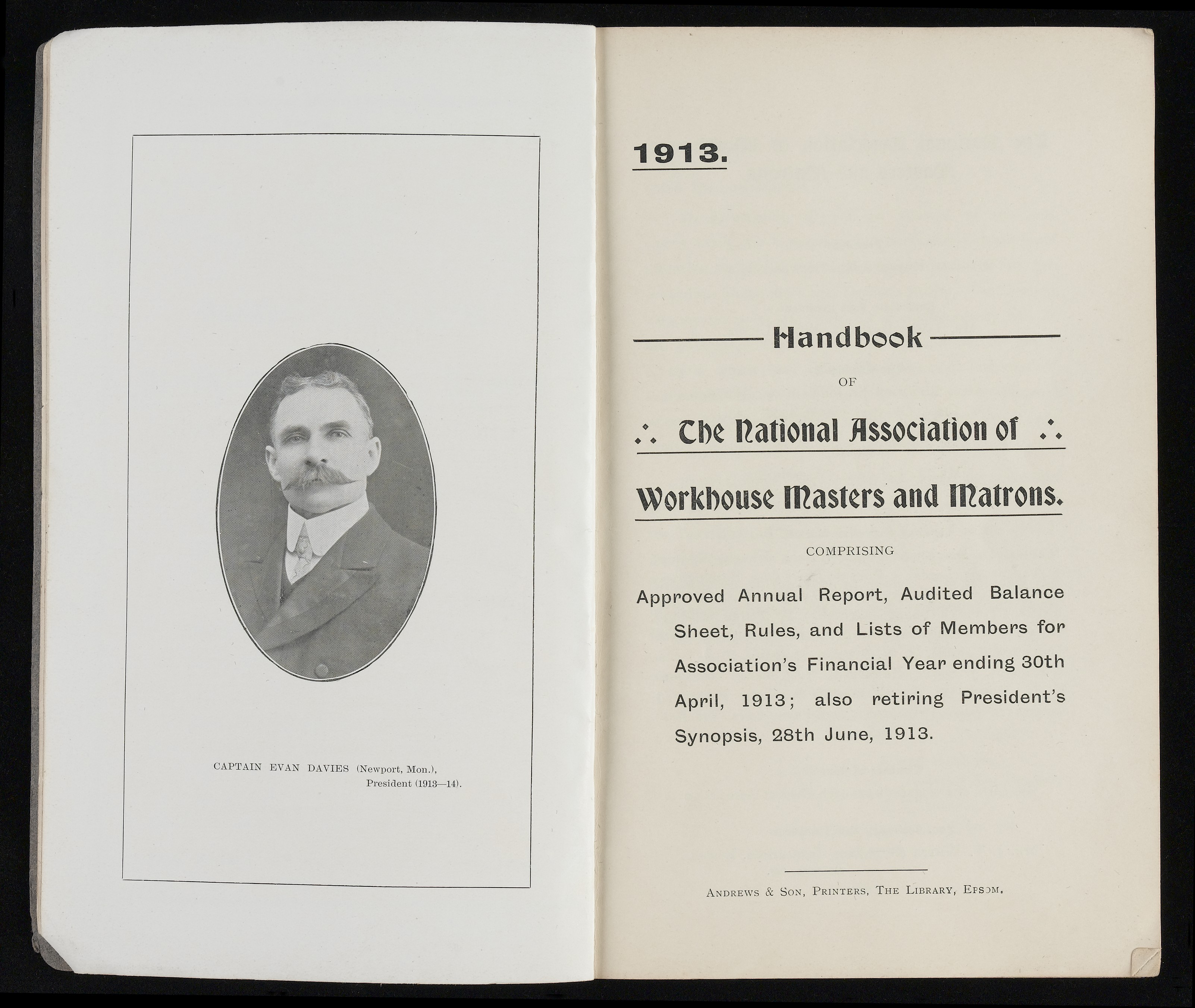 Frontispiece and title page of the Handbook of the National Association of Workhouse Masters and Matrons. Archives & Manuscripts